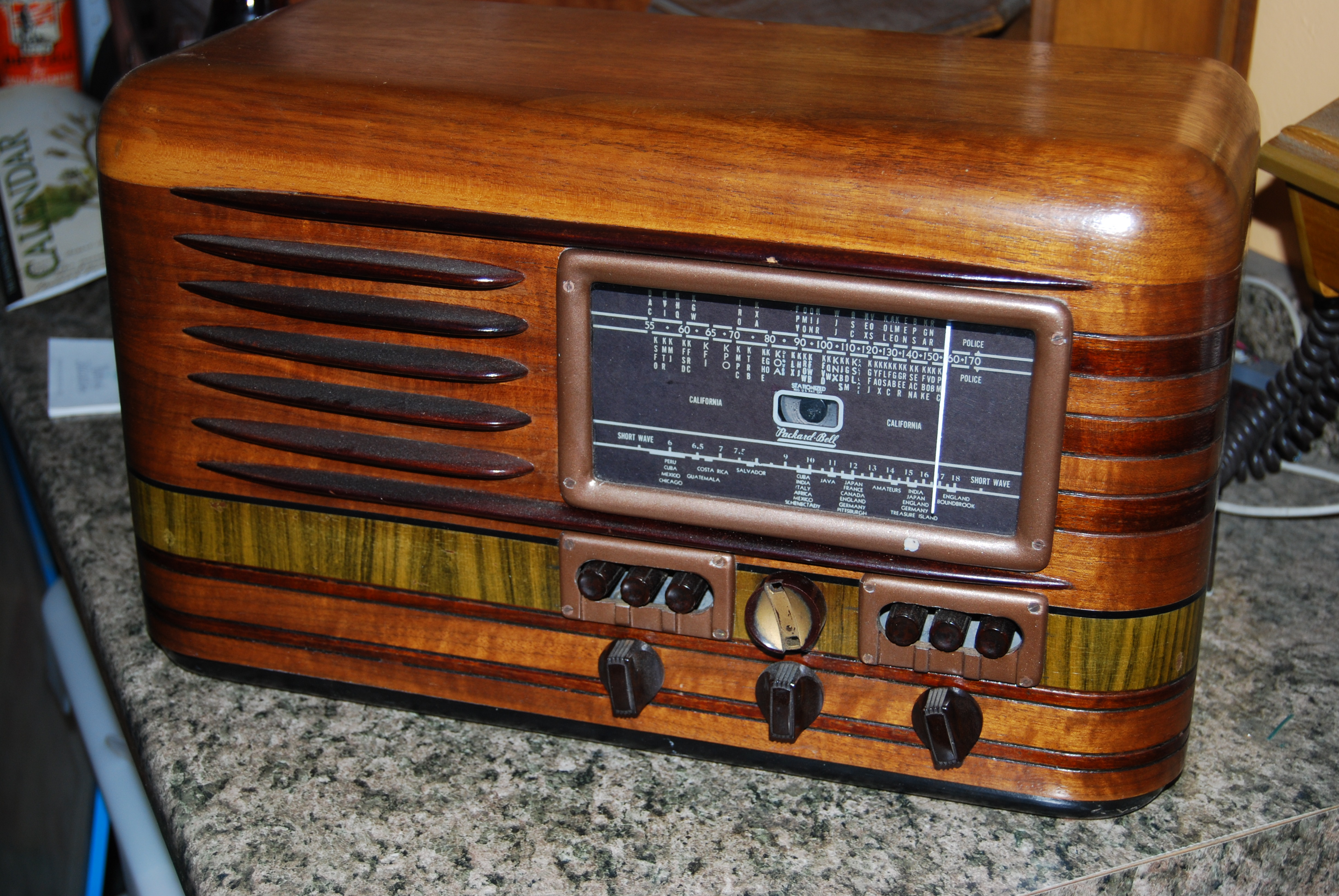 Packard Bell Model 46H AM SW Radio (1938). Packard Bell was a Western US radio and television manufacturer famous for stationizing their tuning dials.